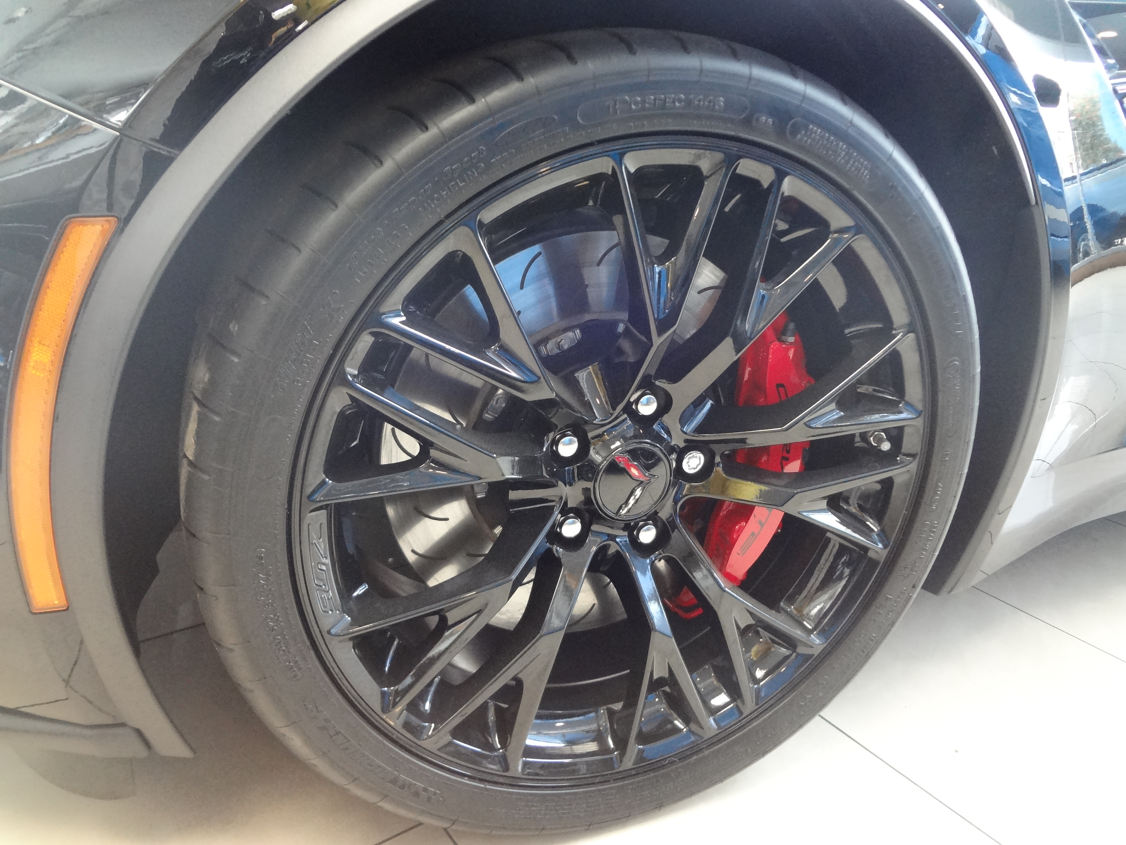 Chevrolet Corvette (C7) rim close up Photography by David Adam Kess Photography by David Adam Kess